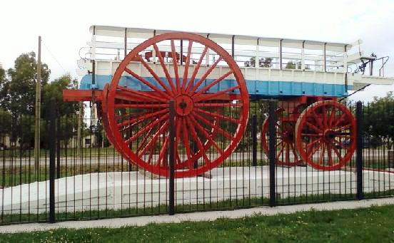 Carreta La Pichona